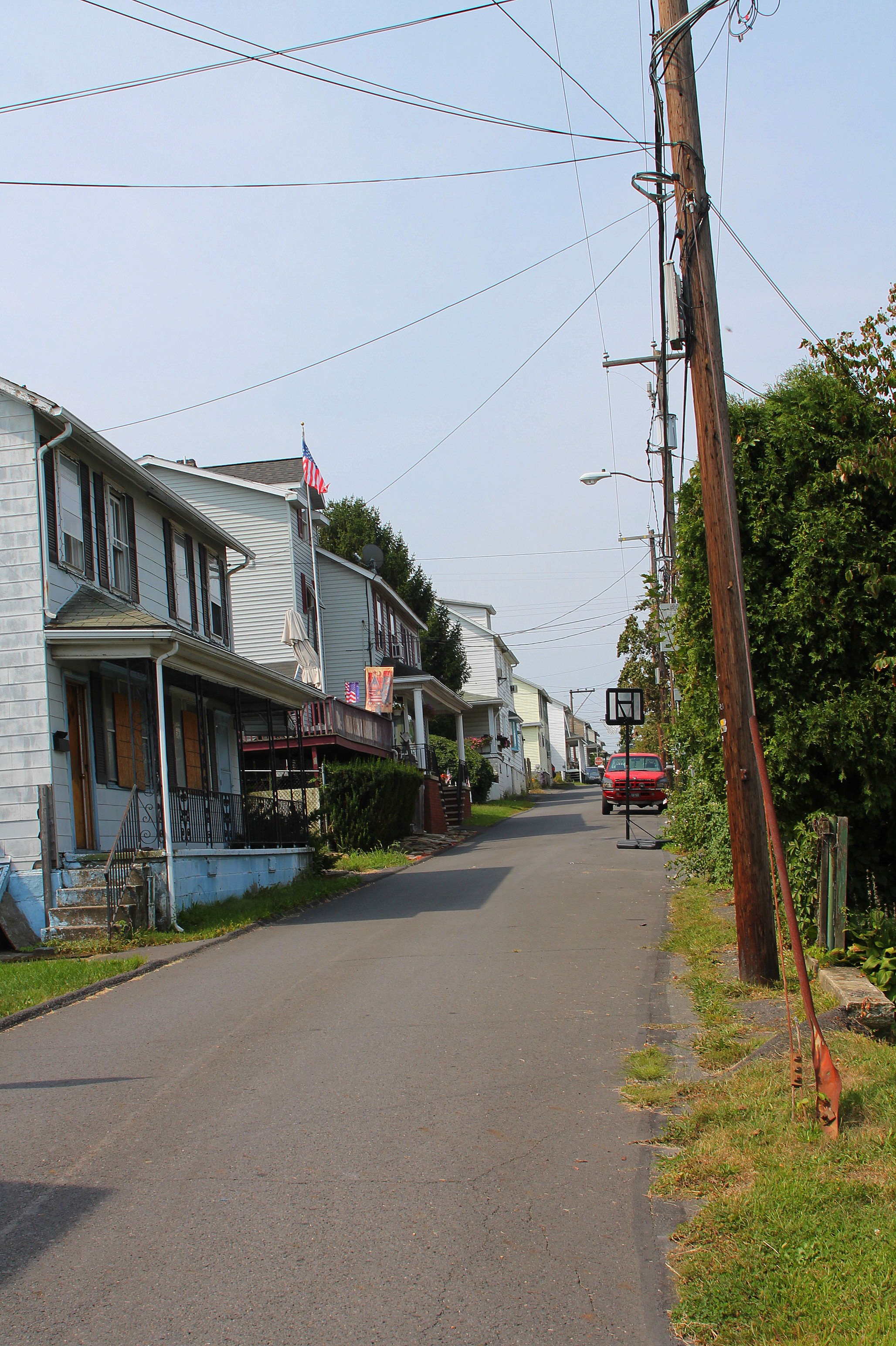 Street in Strong, Pennsylvania